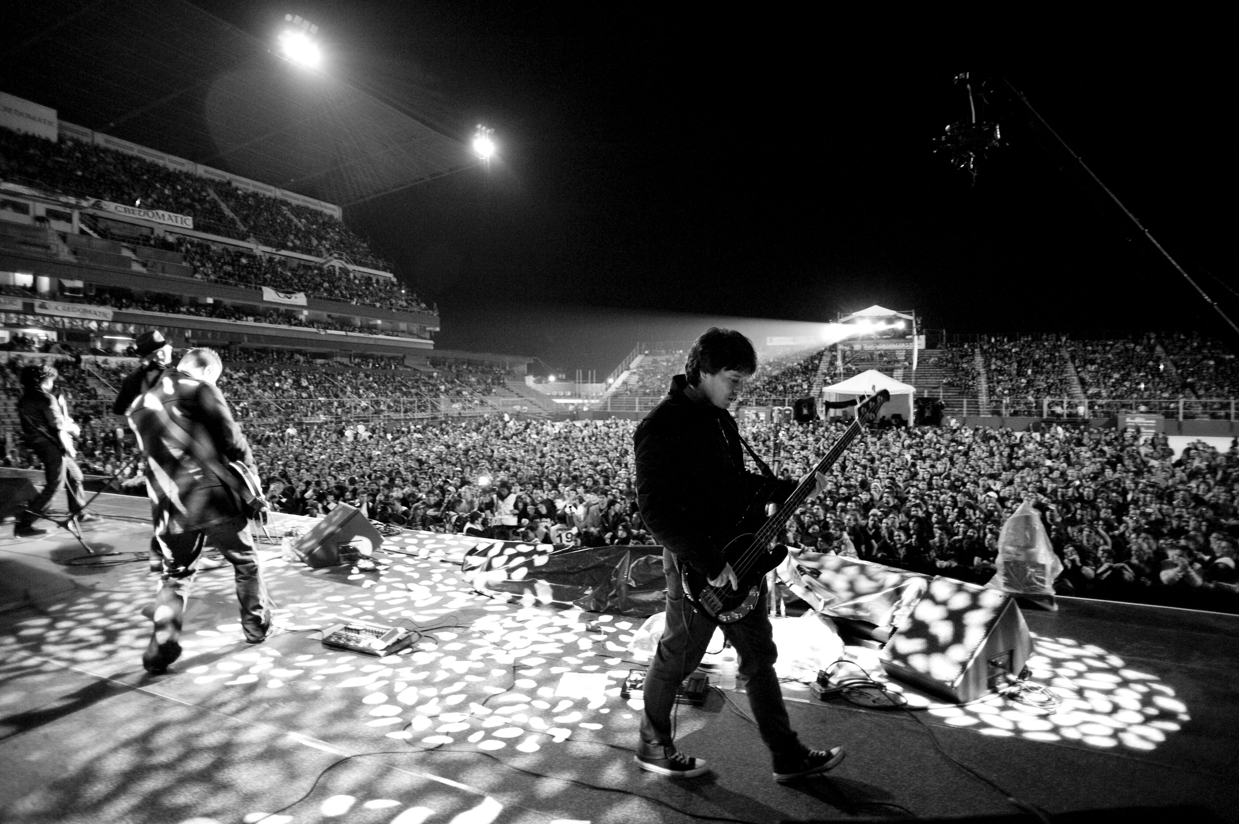 Telonero de Bon Jovi